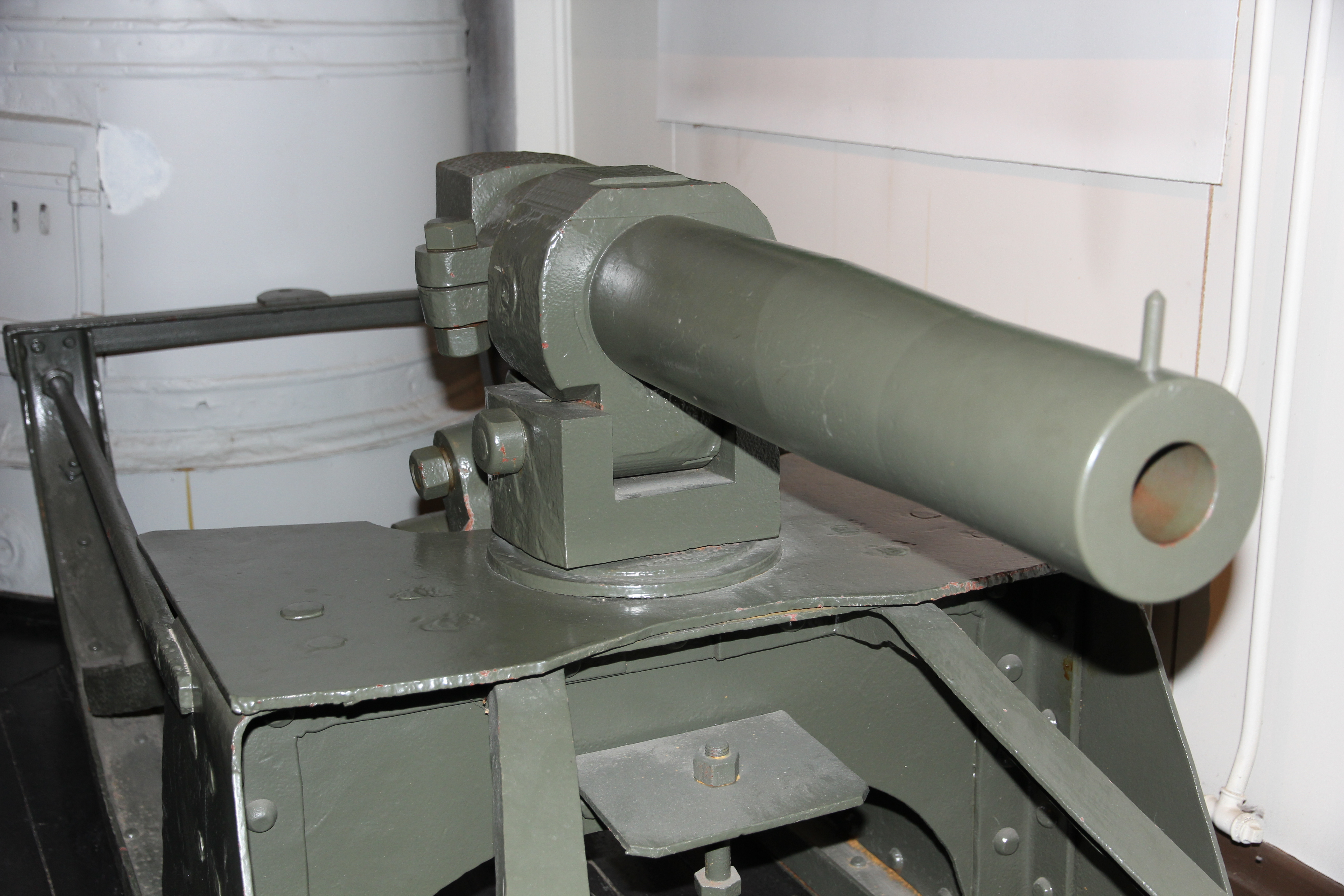 "Varkaus gun", a hand-made cannon built at Lehtoniemi machine shop in 1917 during the Finnish civil war. Photographed in Mikkeli Infantry museum.